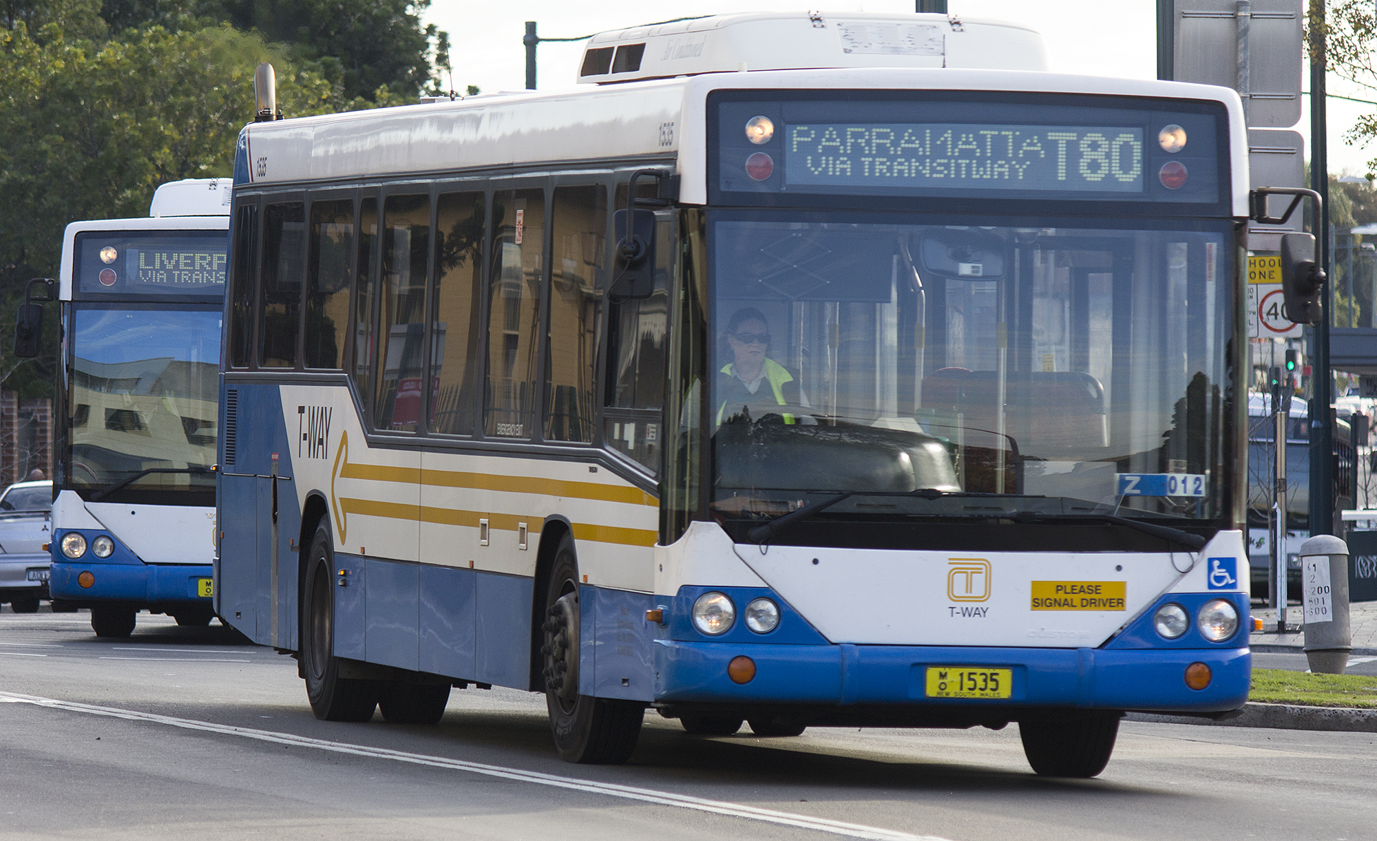 T-Way liveried (mo 1535), operated by Western Sydney Buses, Custom Coaches 'CB60 ' bodied Volvo B12BLE on Moore Street in Liverpool, New South Wales.